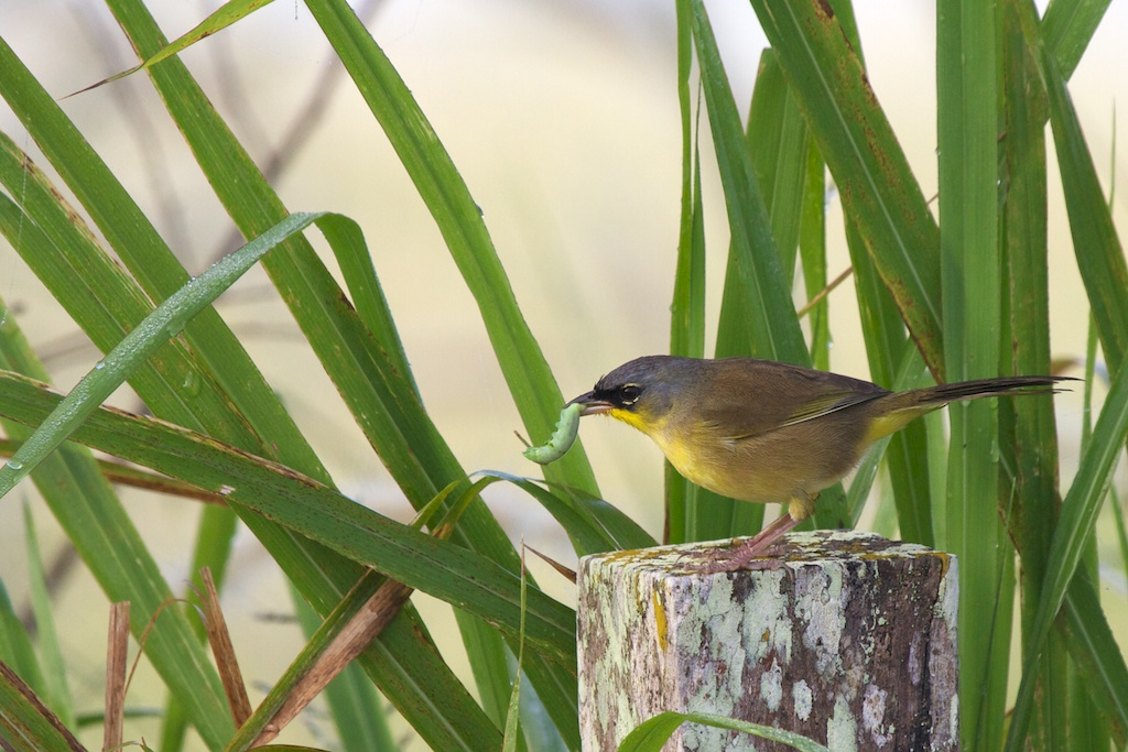 A Grey-crowned Yellowthroat in Belize.